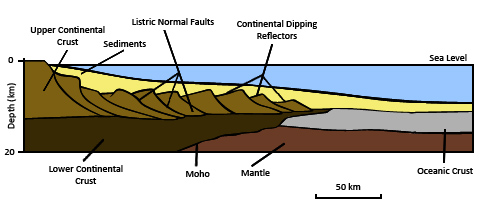 Cross-Section of a passive margin illustrating the various layers that comprise the structure.